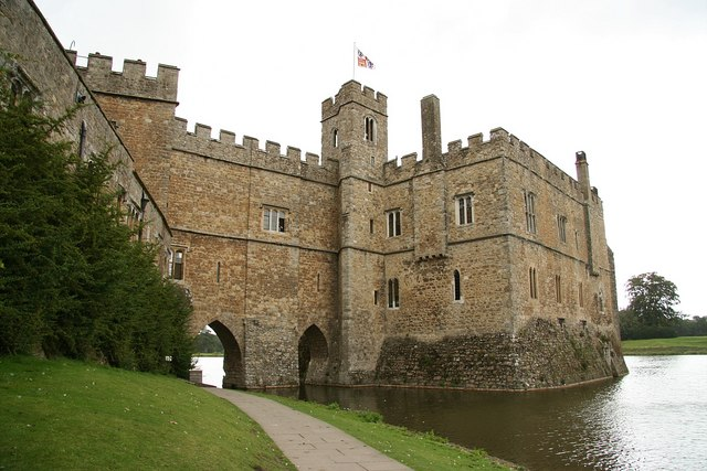 Gloriette Leeds Castle